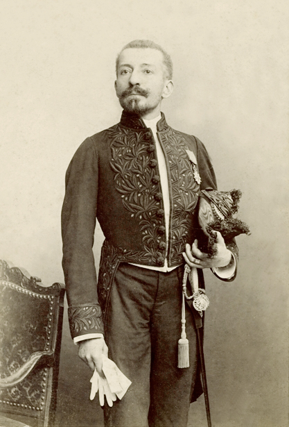 French writer Pierre Loti (1850-1923) on the day of his reception at the Académie française on 7 April 1892.